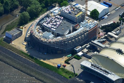 Construction site for the new building of the new Musical Theatre, Stage entertainment on the banks of the Elbe in Hamburg Steinwerder.